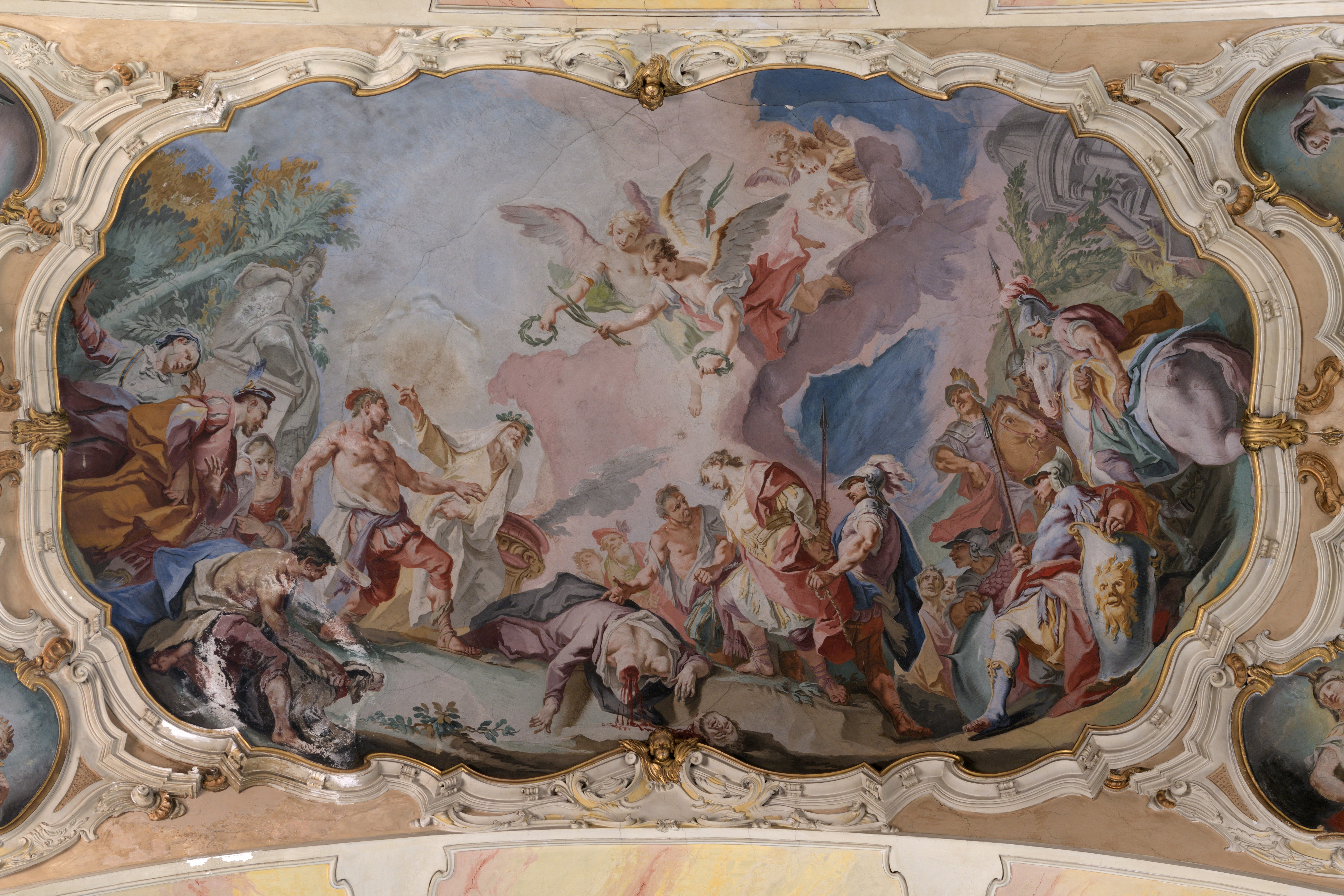 The glorification of the martyrs Felix and Adauctus in a dome fresco by Carlo Carlone in the parish church of San Felice del Benaco on lake Garda.